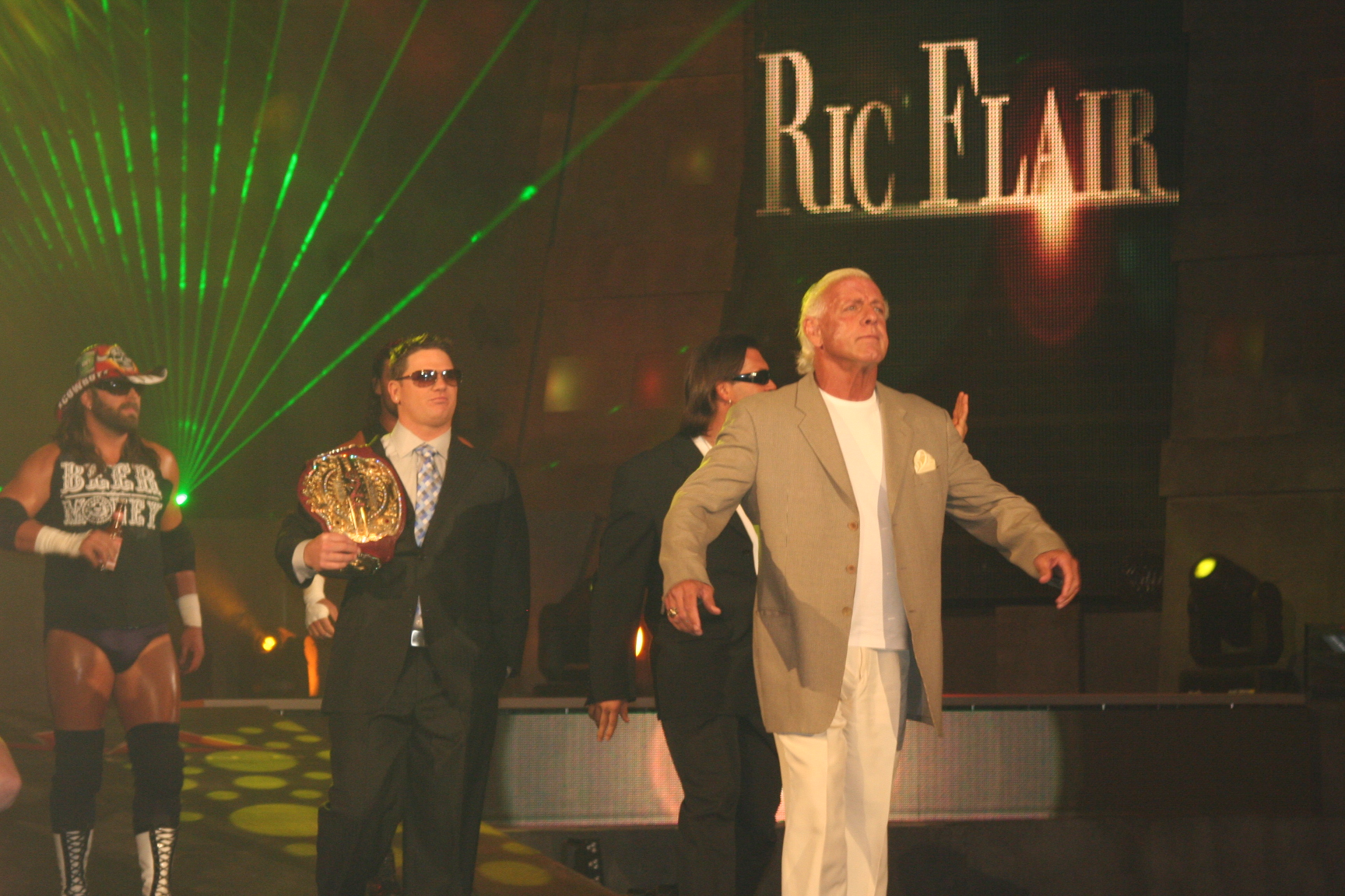 TNA's Fortune stable: Beer Money, Inc. (James Storm, far left, and Robert Roode, not seen clearly as behind Styles), AJ Styles (second from left), Kazarian (second from right), and Ric Flair (front) at the TNA Impact! tapings on July 26, 2010.